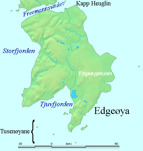 Map detailing the marine features of Edgeøya in the Svalbard archipelago. Locations were labelled mainly based on detailed maps from , cross-referenced with other map sources where possible. Norwegian Polar Institute data was also used.